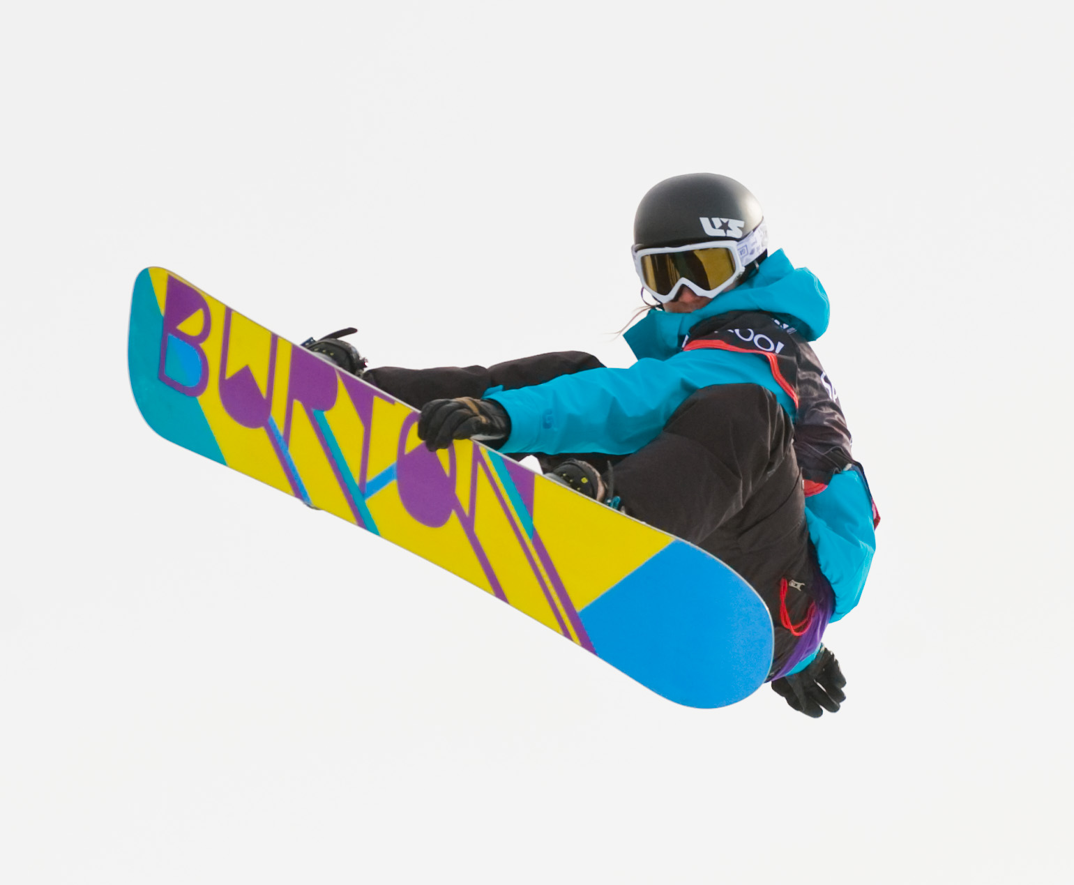 US Snowboarding Grand Prix Half Pipe @ Mammoth Mountain Ca